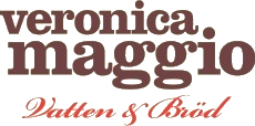 The logotype for the album "Vatten och bröd" by Veronica Maggio.